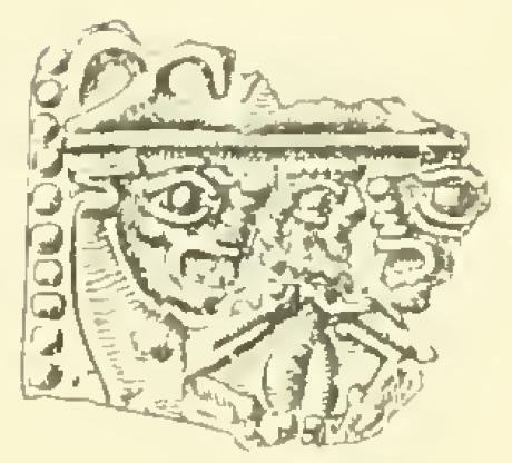 Small Goddess.